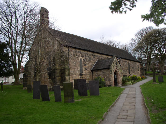 Former chapel of St John the Baptist, Belper, Derbyshire, seen from the southwest